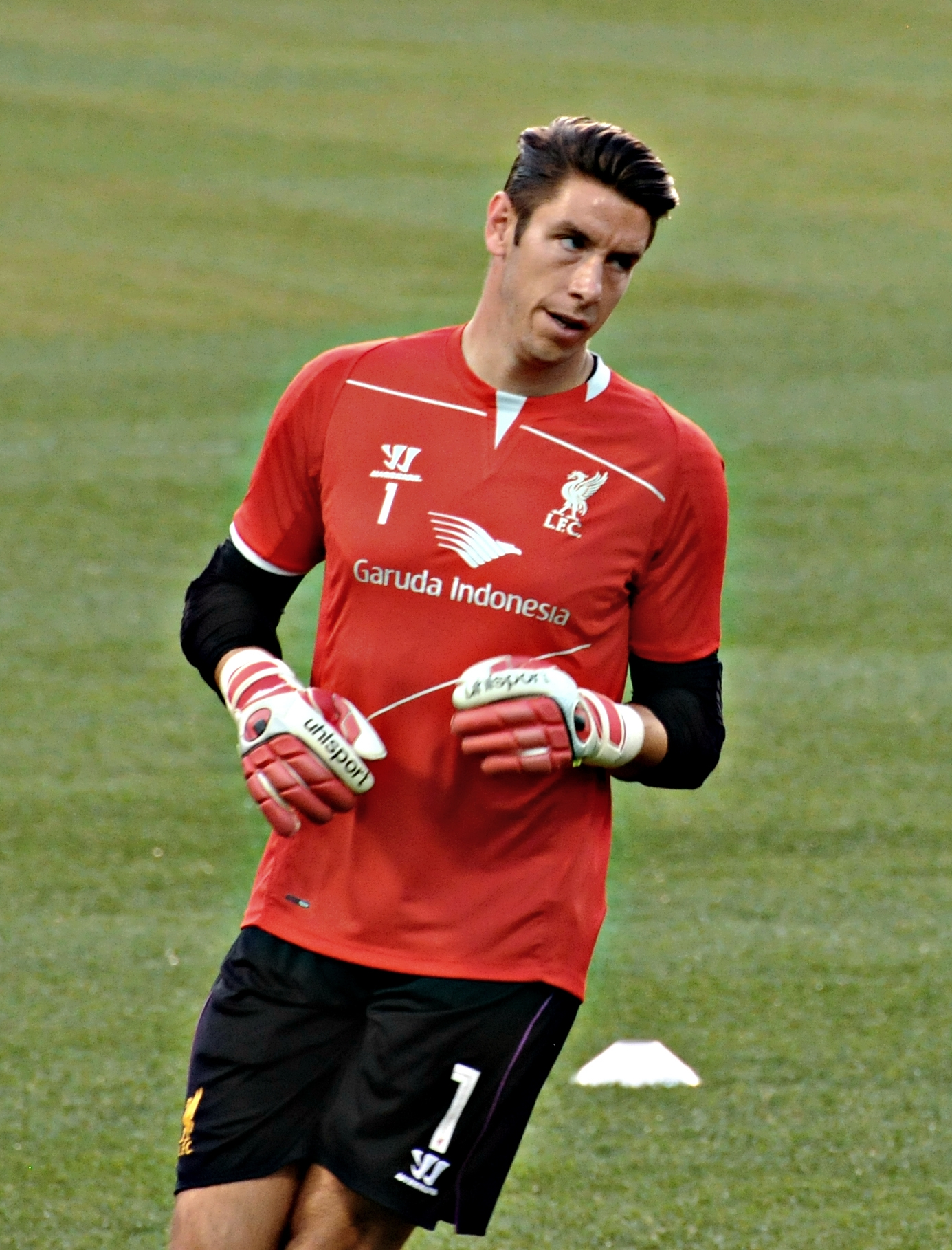 Australian association football player Brad Jones at a warm-up before a friendly game Liverpool FC v AS Roma at Fenway Park in Boston.